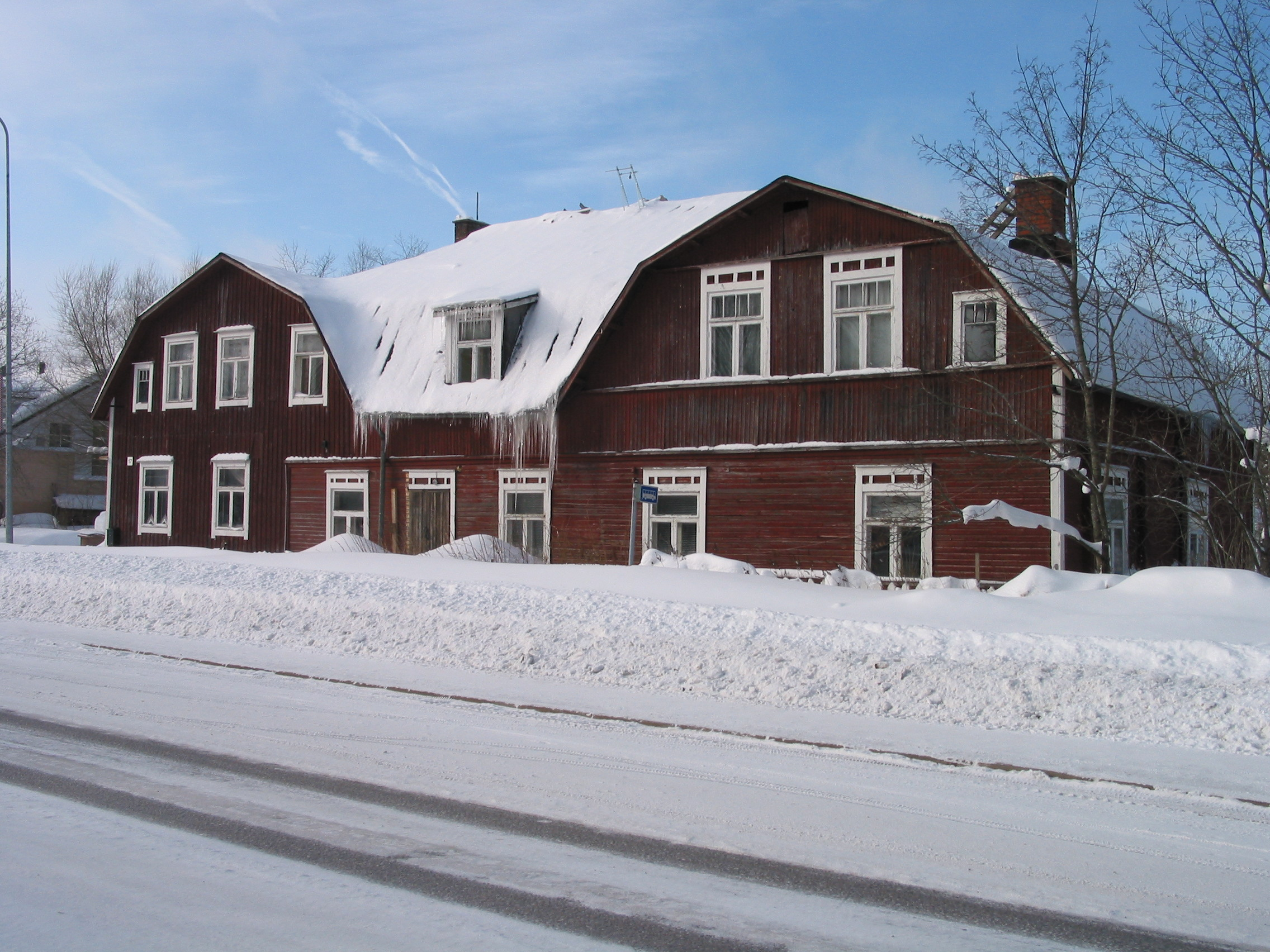 Old house on Asemantie Street in Nummela, Vihti, Finland Winter 2010